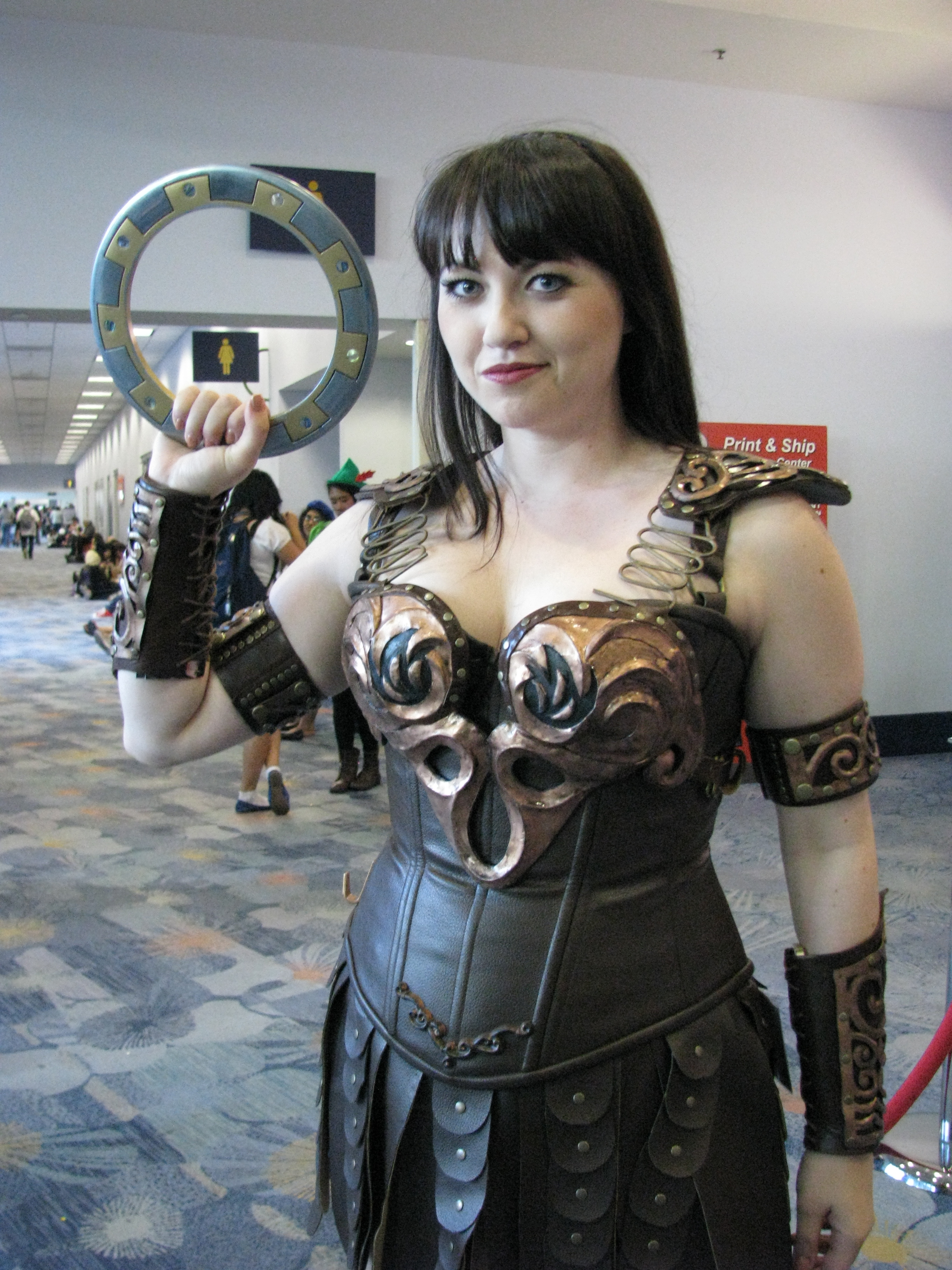 WonderCon 2014 - Xena Cosplay